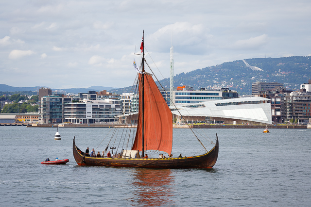 Ships participating in Kyststevnet 2014 in Oslo, Norway